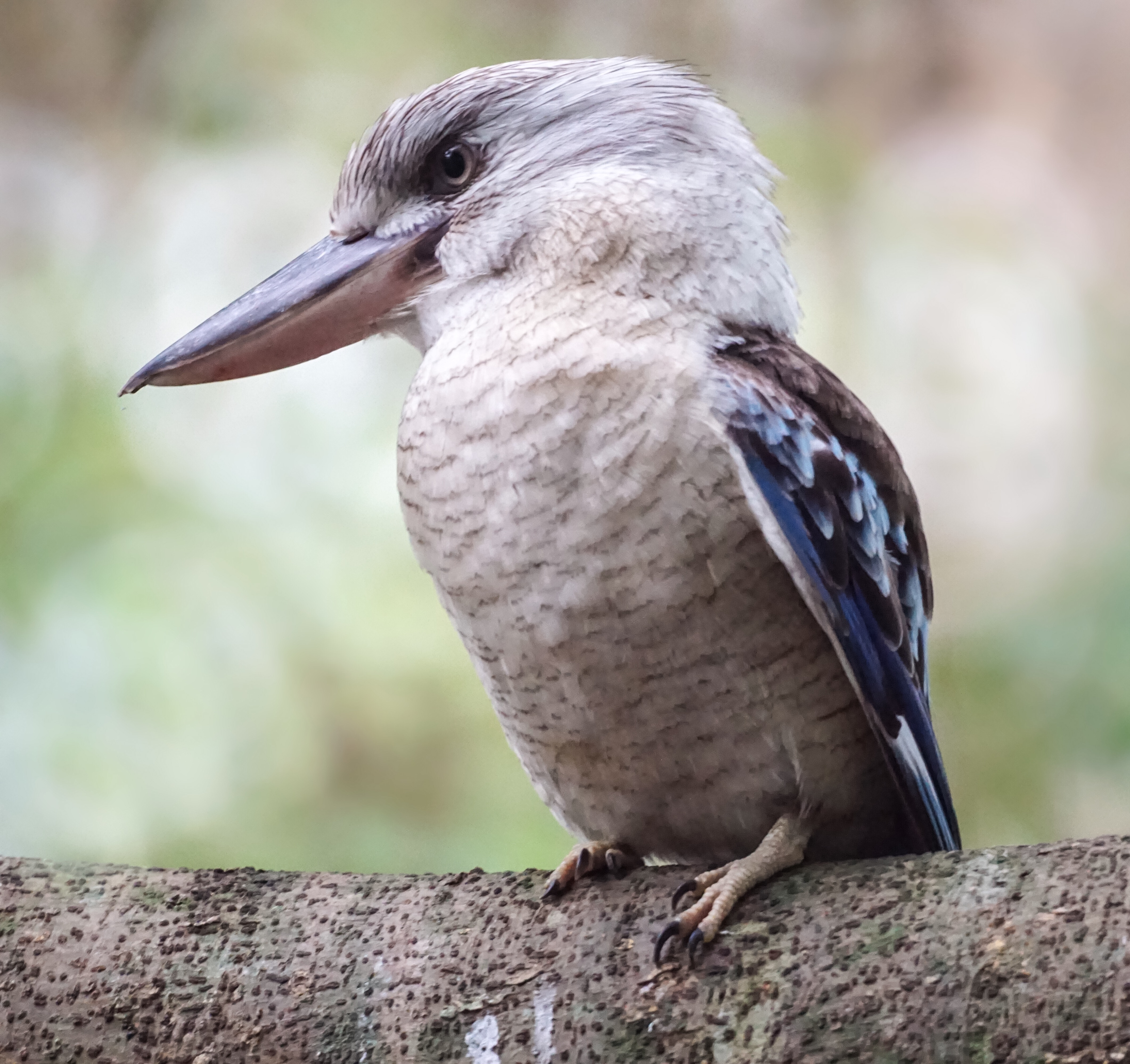 Kookaburra (Bird enclosure) Wildlife Habitat Port Douglas, Queensland